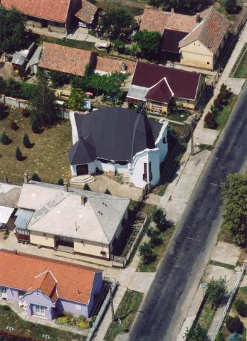 Csombárd, Hungary, aerial photography